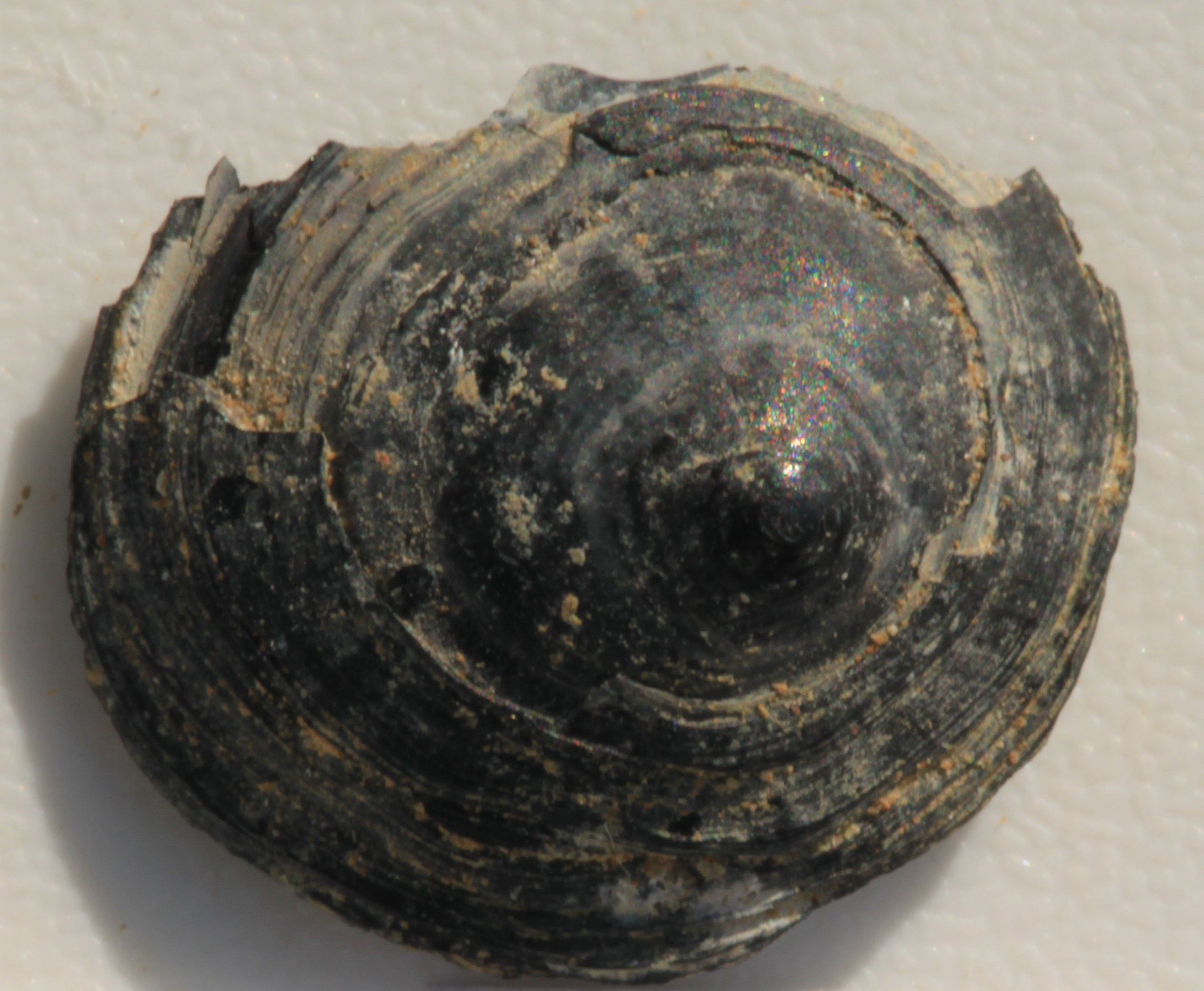 The lampshell Discinisca lugubris, Order Lingulida, Family Discinidae, valve outside view, 15mm across, found in Dorchester, South Carolina, USA, from the Pliocene